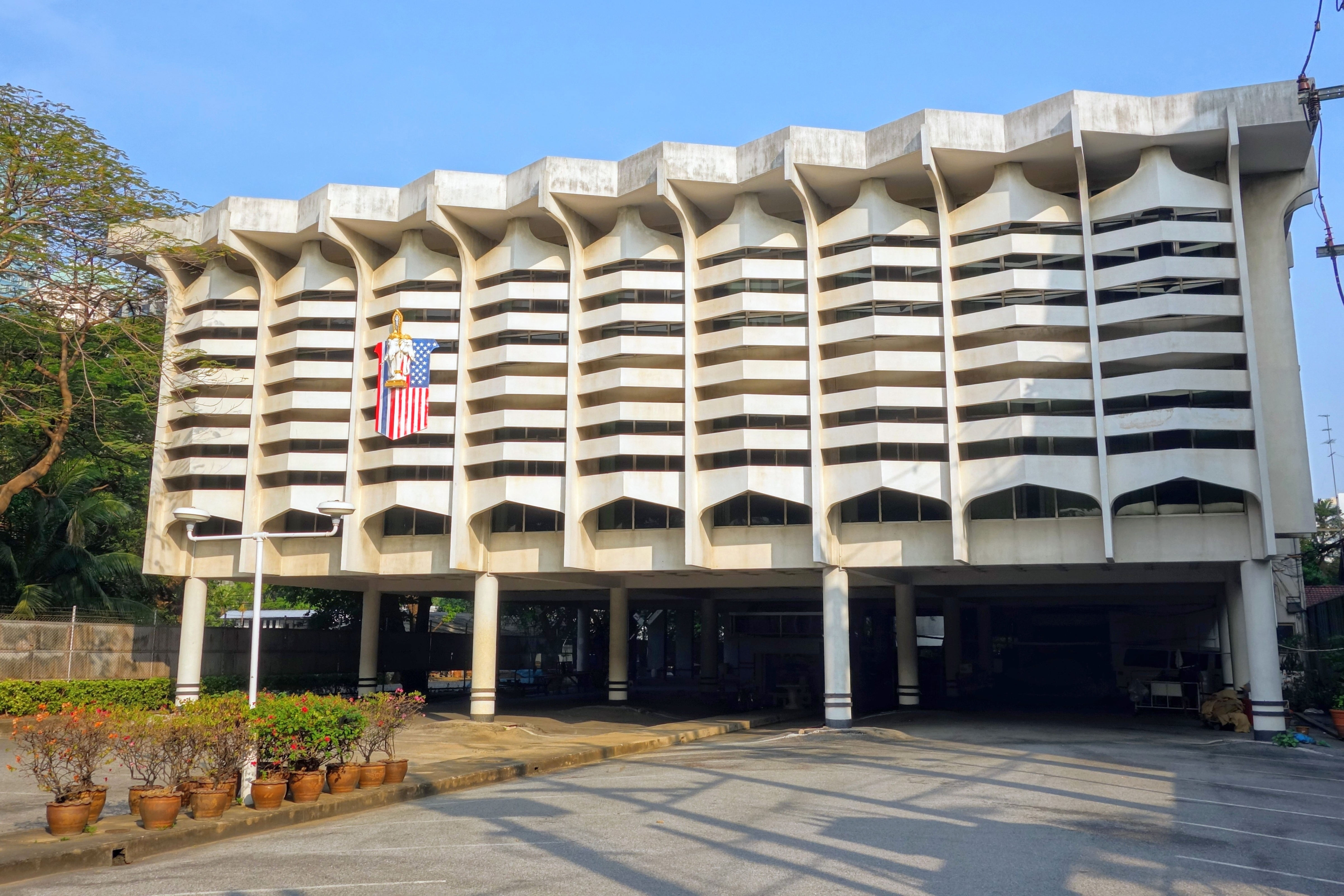 AUA Language Center former Ratchadamri Road location in Bangkok, Thailand in December 2013